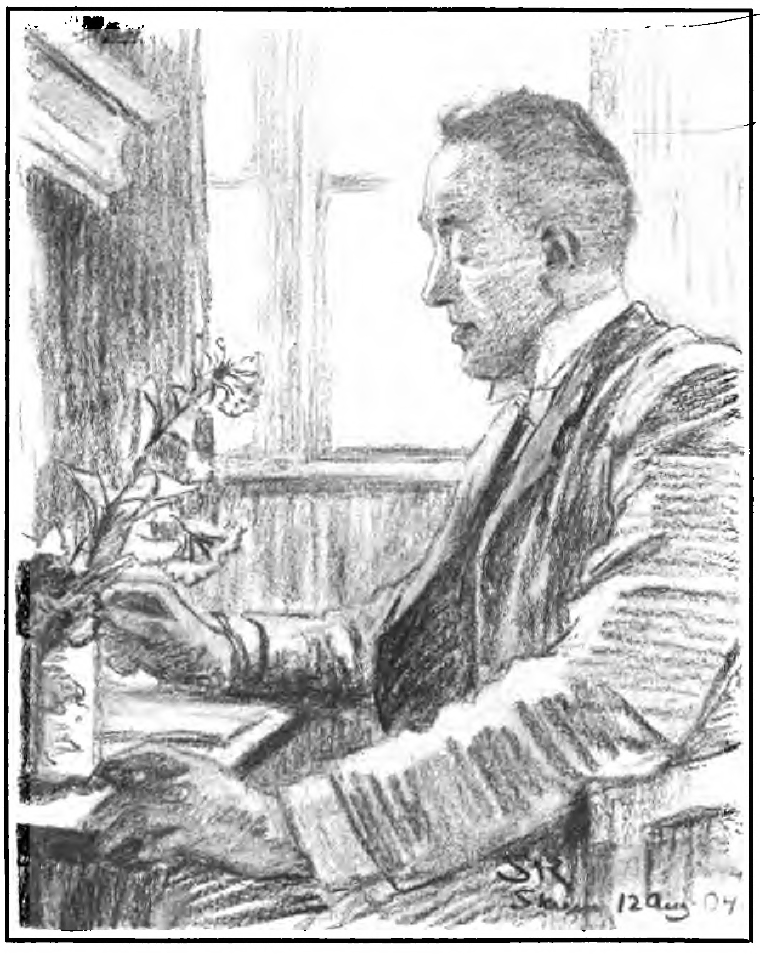 Drawing of Vilhelm Andersen by Peder Severin Krøyer. Used in Andersen's book Bacchustoget i Norden from 1904.